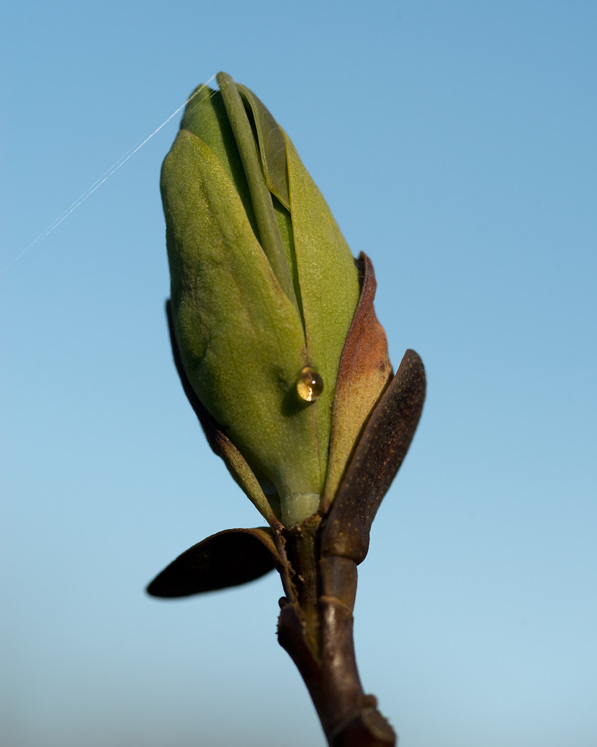 Liriodendron tulipifera × chinense (Hybrid of Tulip Tree) Breaking Bud